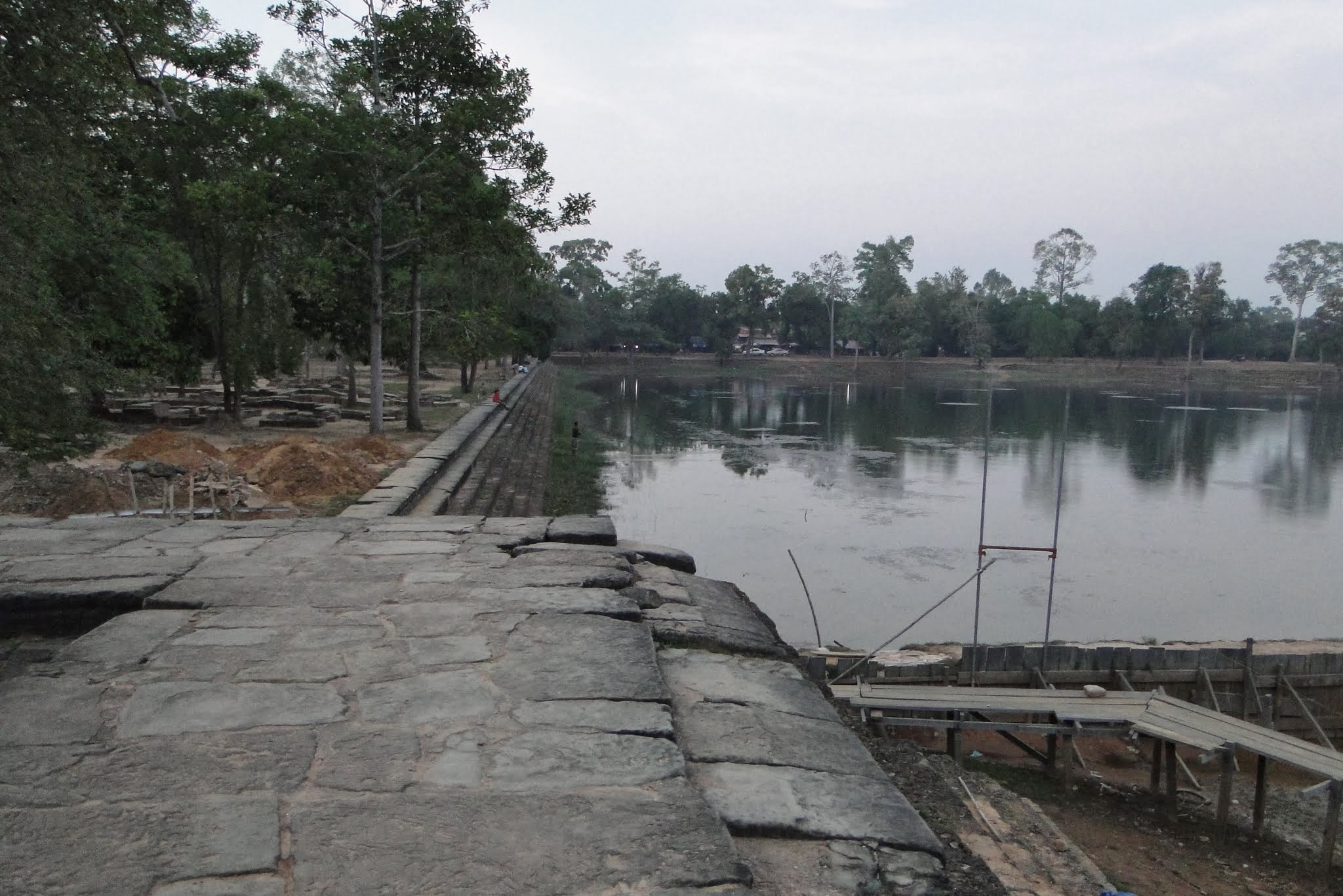 Stone covered quay